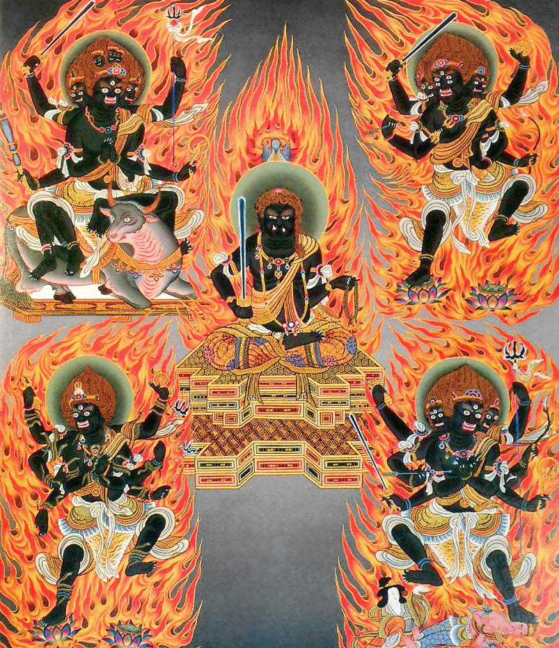 The Five Wisdom Kings is the most important grouping of Wisdom Kings (Vidyaraja) in Esoteric Buddhism. They are wrathful manifestations of The Five Wisdom Buddhas.